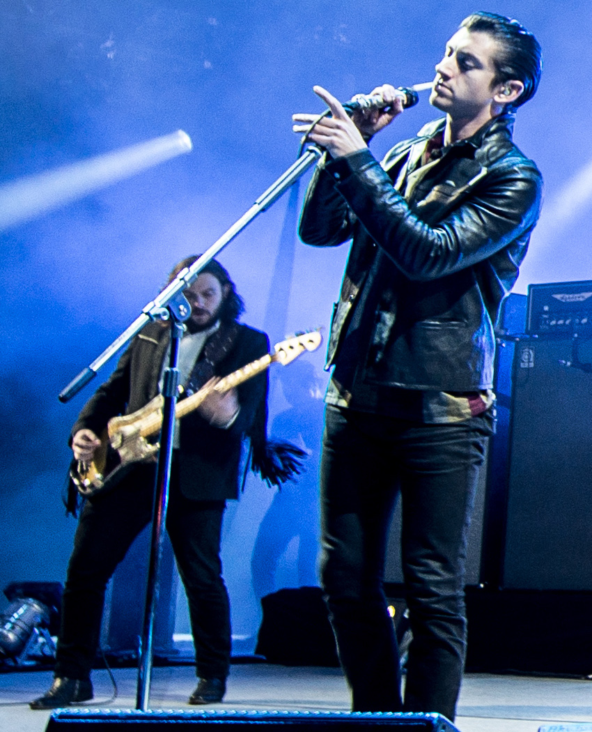 Arctic Monkeys vocalist Alex Turner and bassist Nick O'Malley performing at Roskilde Festival 2014 in Denmark